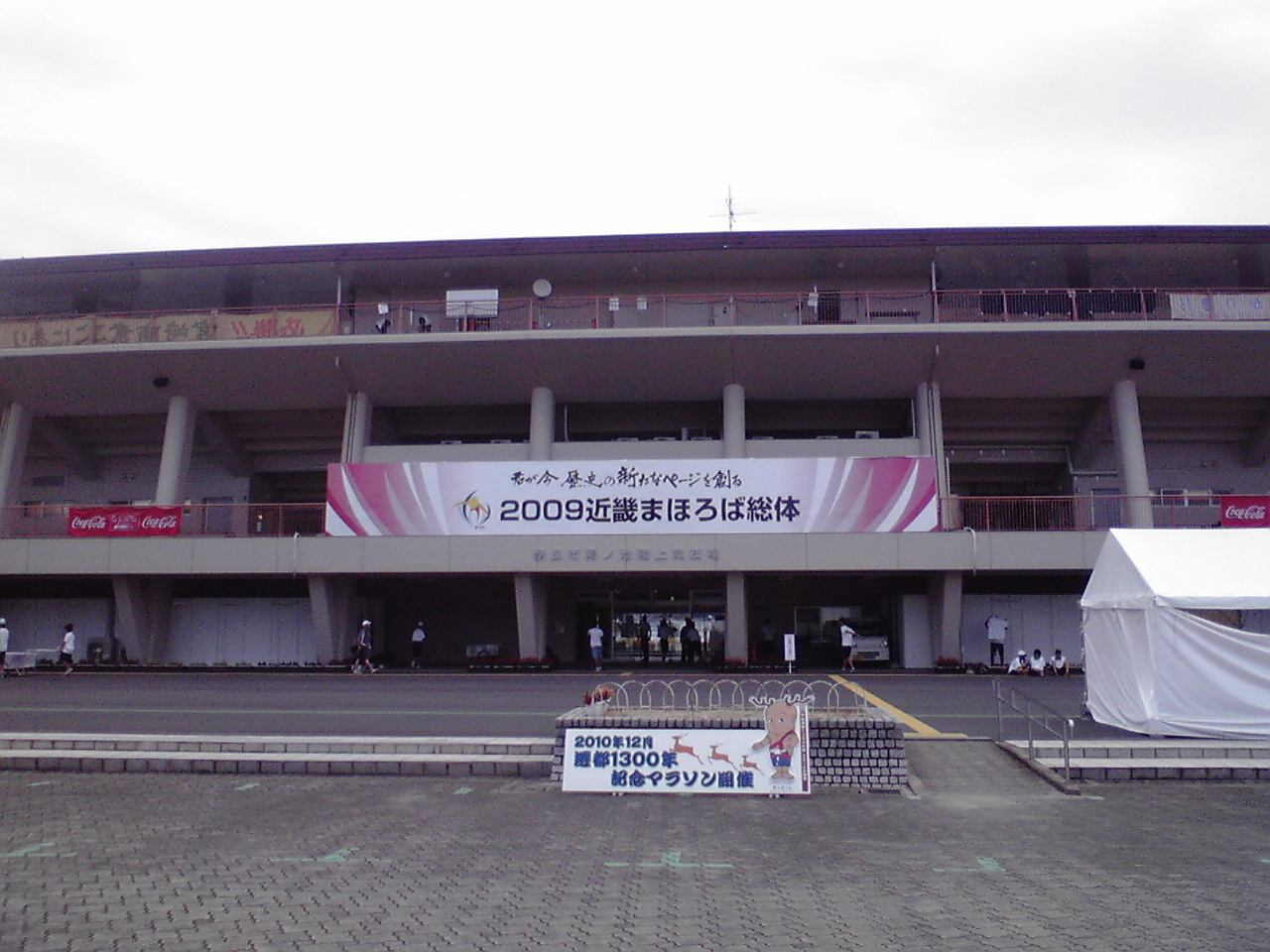 The "Nara city Ko-no-ike Track and Field Stadium" in Nara, Japan).